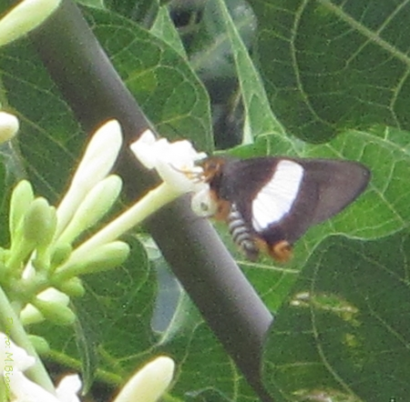 Coeliades forestan forestan (Stoll, 1782) on a male papaya flower. Hesperiidae, coeliadinae Picture taken in Réunion